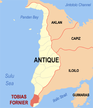 Map of Antique showing the location of Tobias Fornier